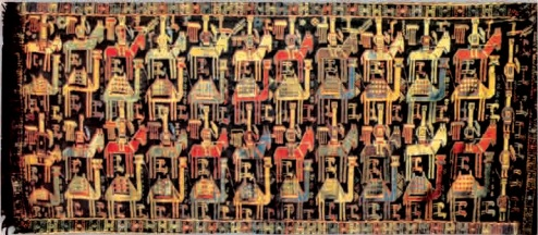 Azerbaijani "Shadda" carpet from Karabakh with a camel caravan.